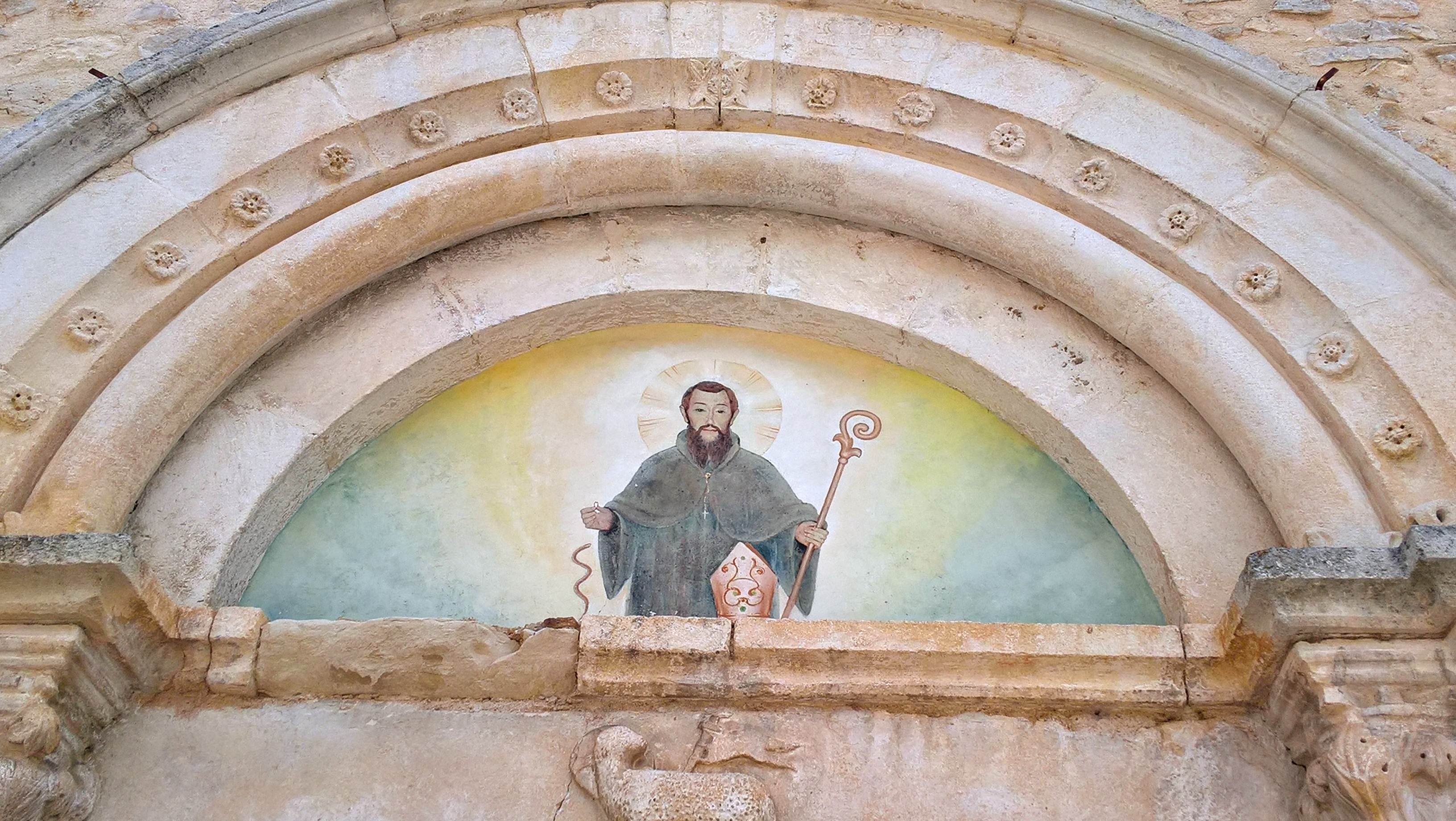 Chiesa della Madonna di Loreto - portal; San Domenico Abate